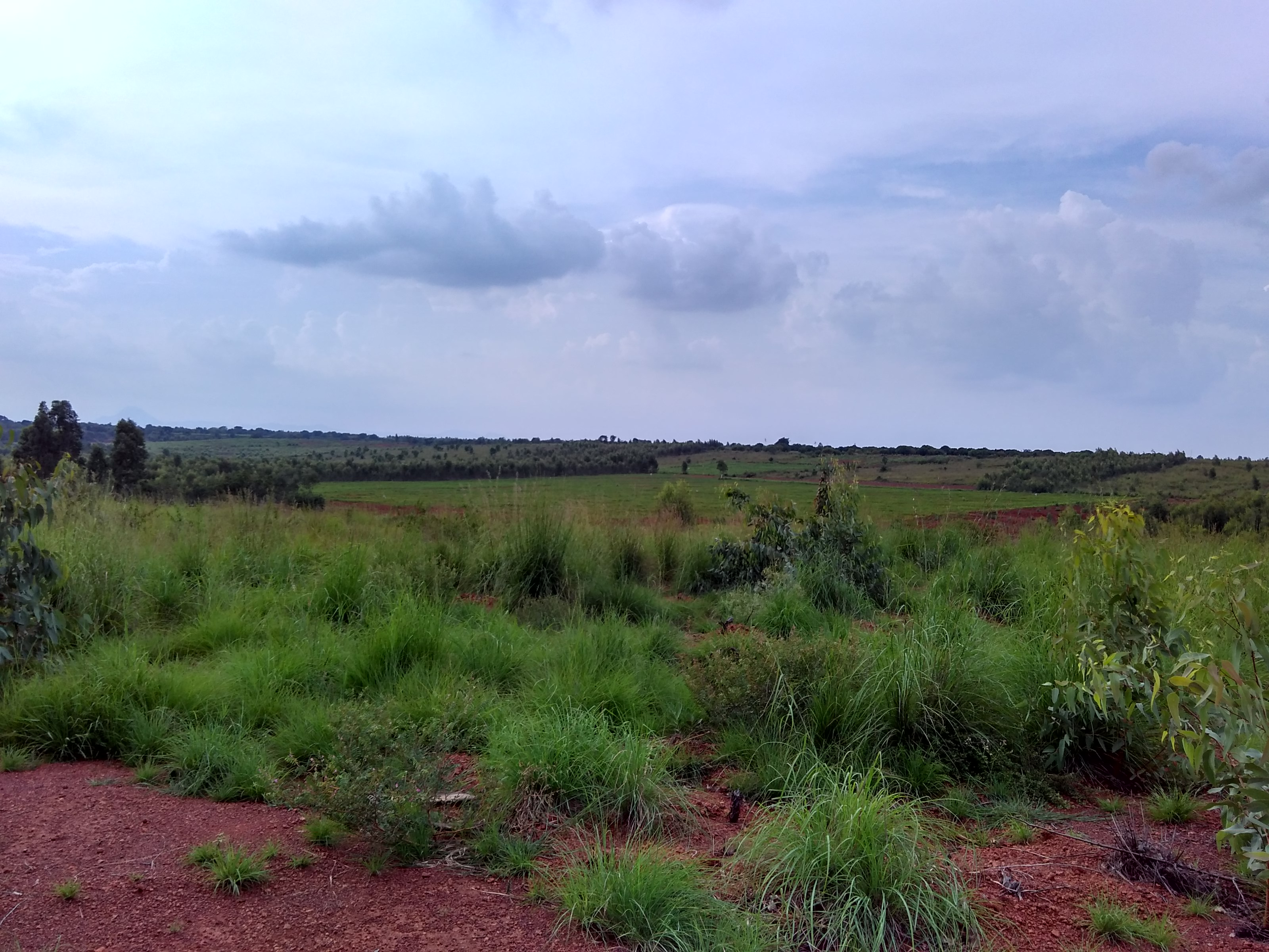 View of Ragi crop from the peek of the village